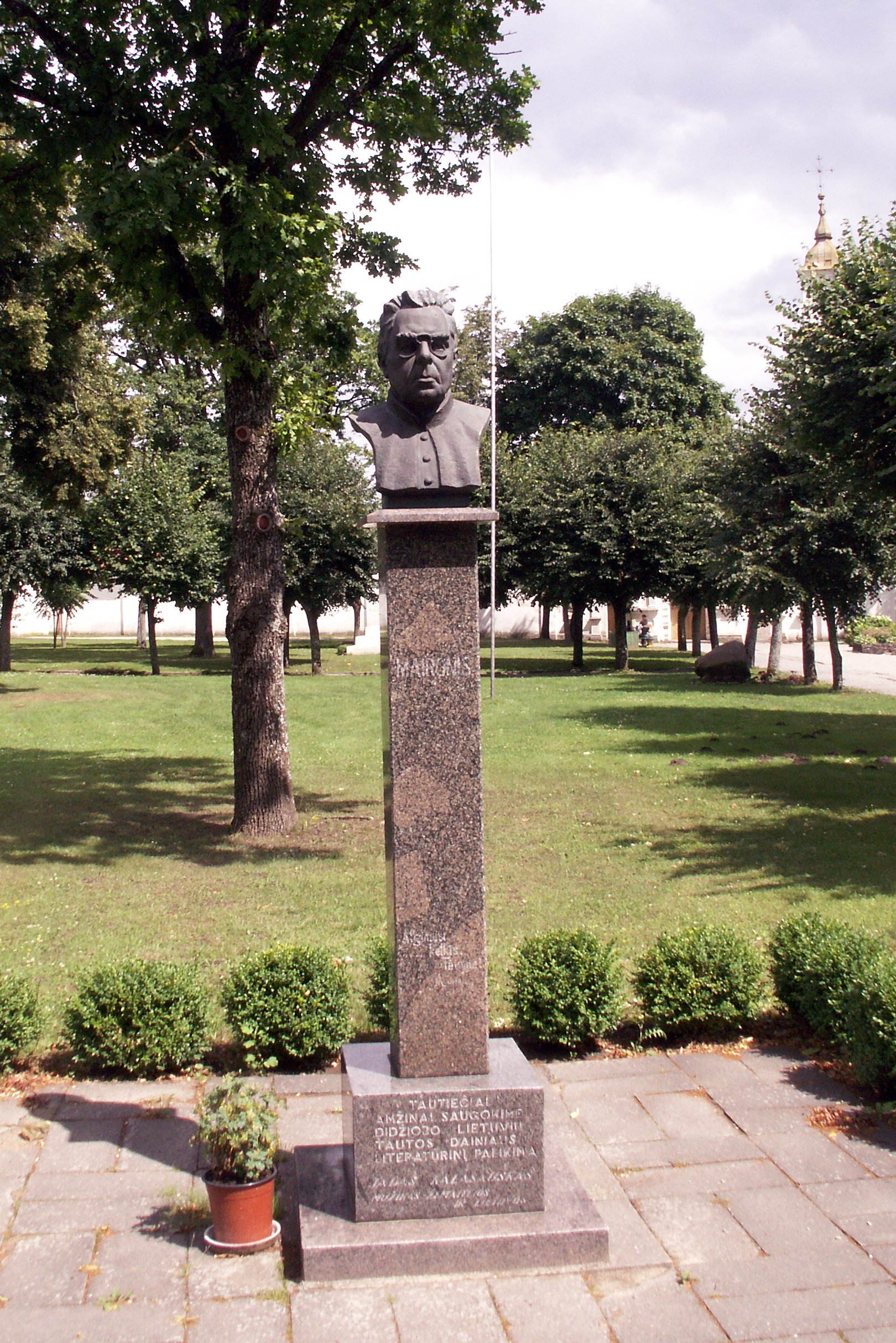 Tytuvėnai, Maironis